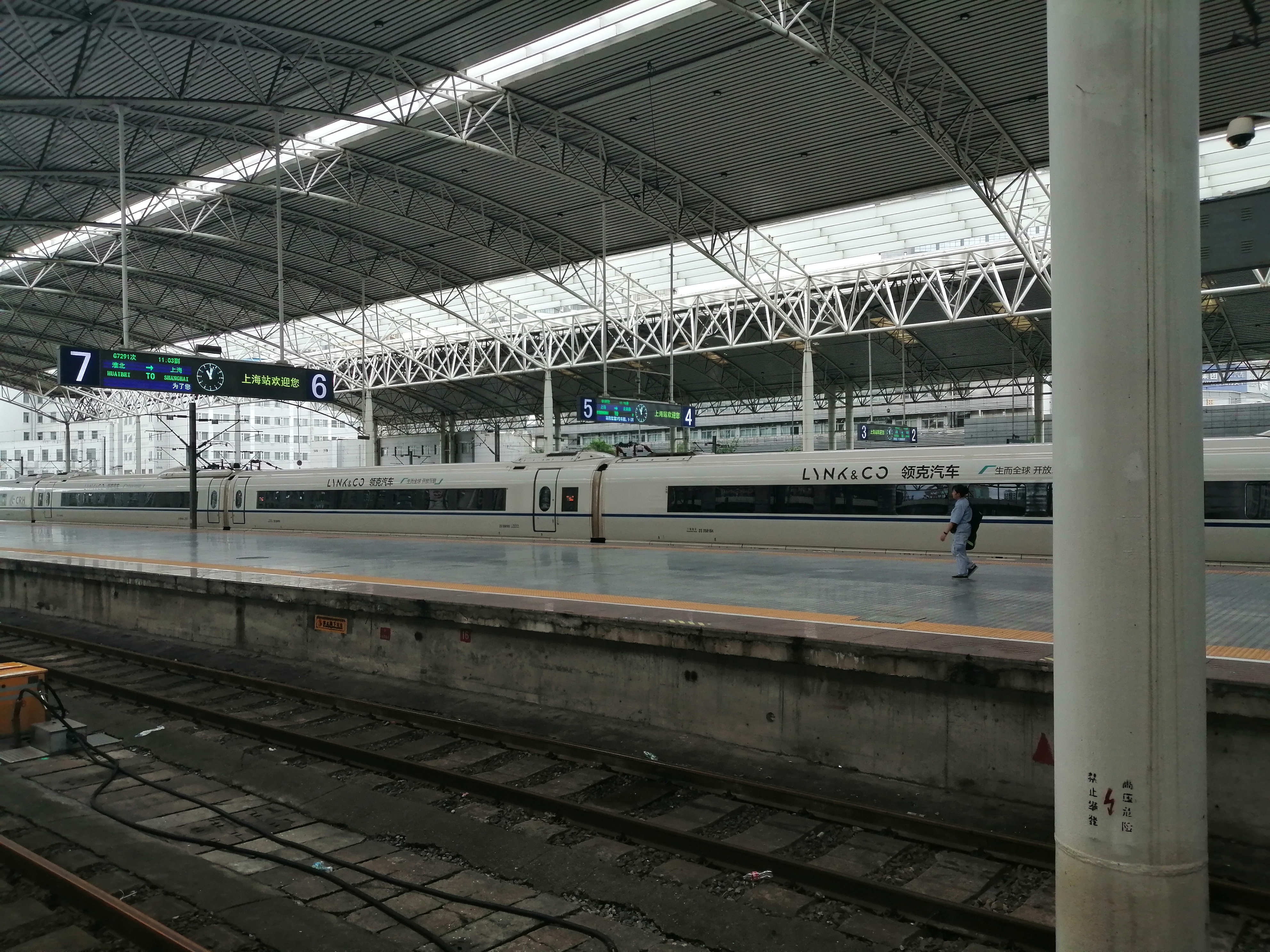 G130 ready to depart at Shanghai Railway Station. This train is bound for Beijing South Railway Station, which sponsored by Lynk & Co. 中文（中国大陆）: 开往北京南站的G130次列车准备从上海站发车，列车由吉利领克冠名。